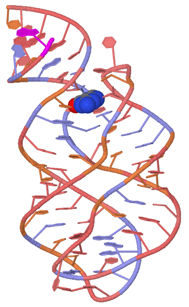 Tertiary structure of the purine riboswitch. The image was generated by Jmol from the PDB:1y26 structure.